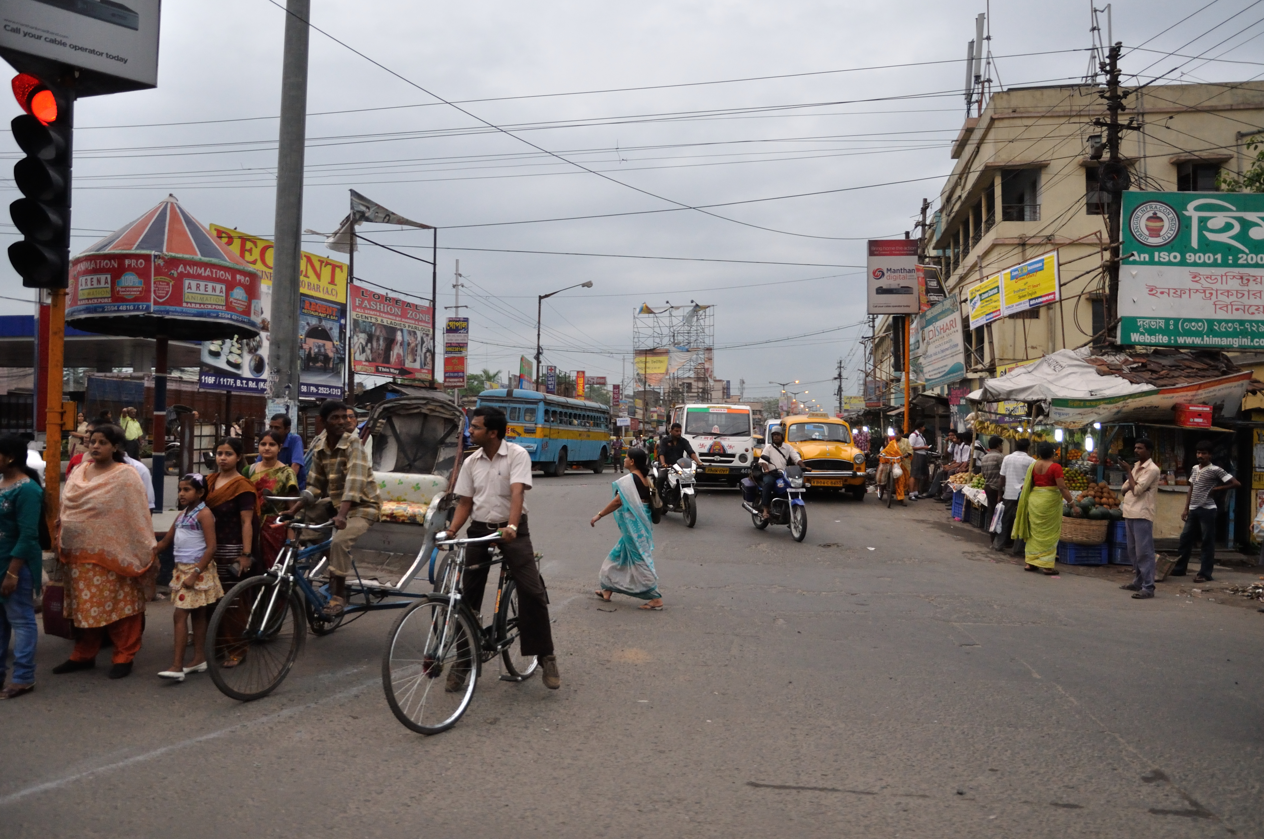 Photographed in greater Kolkata.